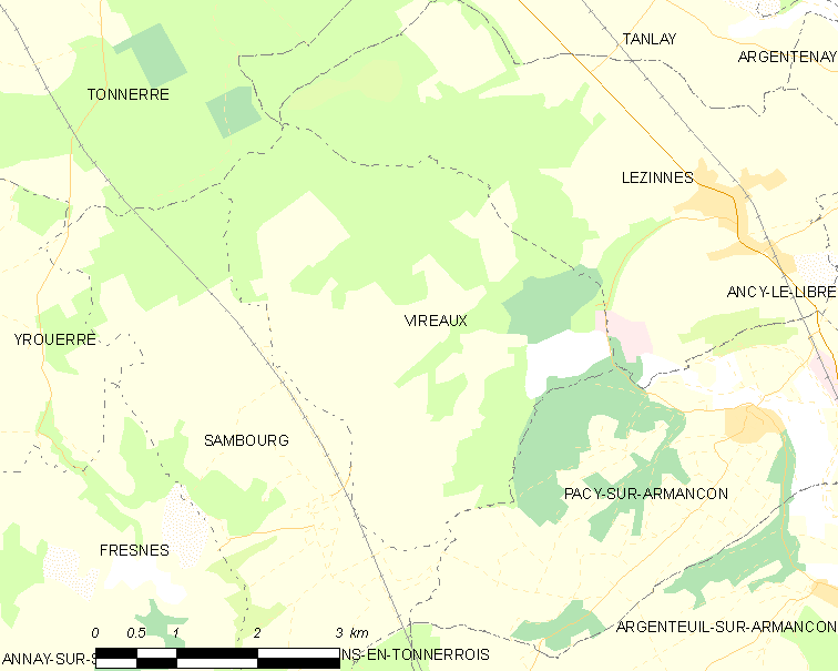 Map of French municipality Vireaux